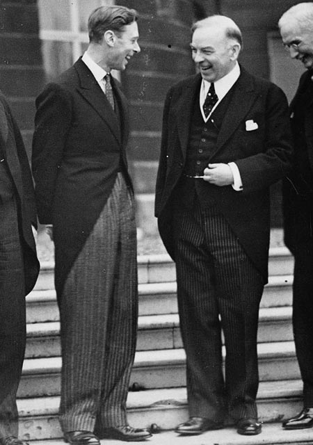 King George VI and Rt. Hon. W.L. Mackenzie King at Buckingham Palace during the Imperial Conference